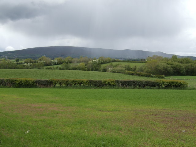 Irish rain View over fields north of Churchtown Road with Slieve Gallion brooding darkly in the distance.